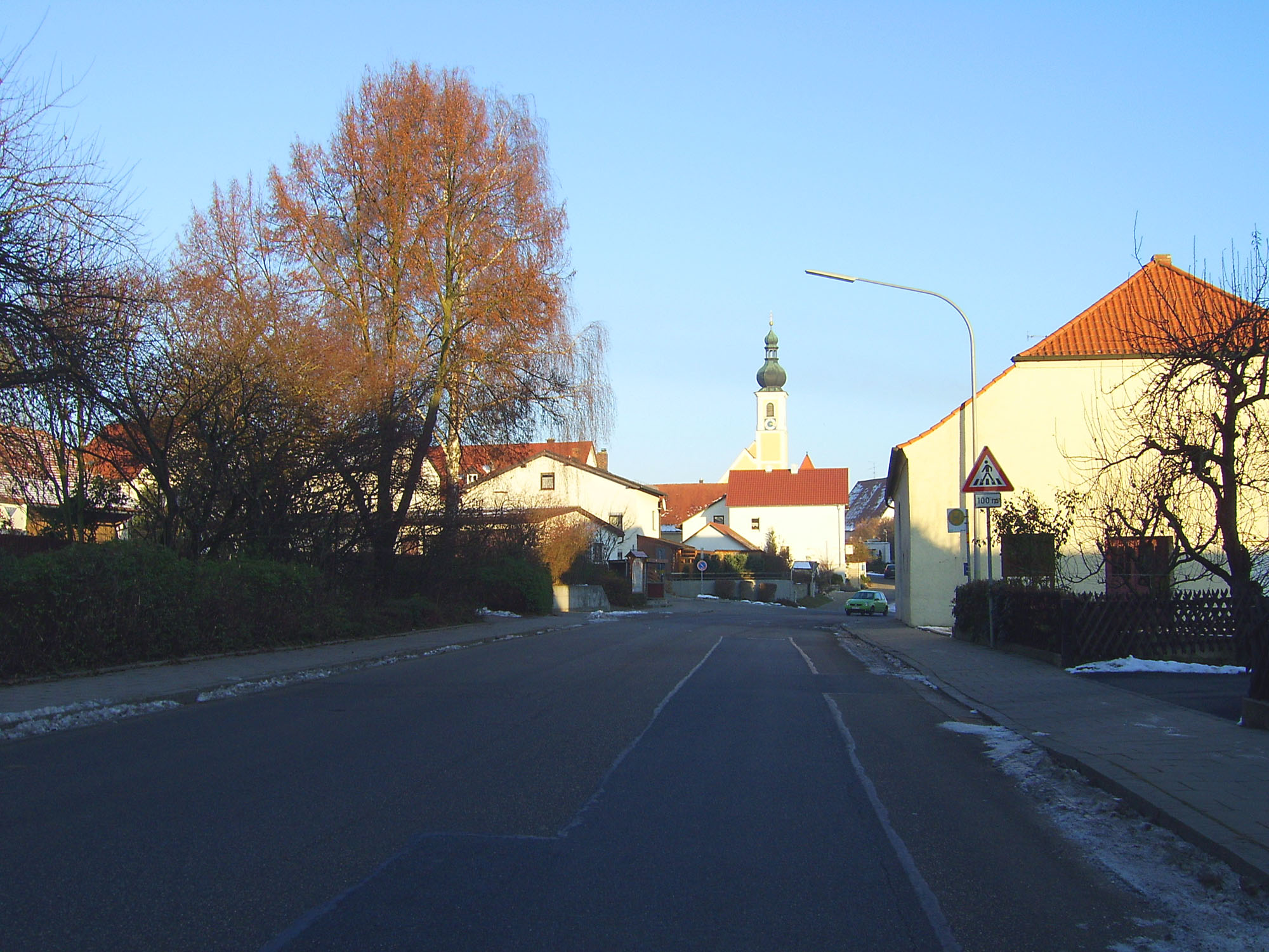 Mainstreet and church of the village Thalmassing near Regensburg.